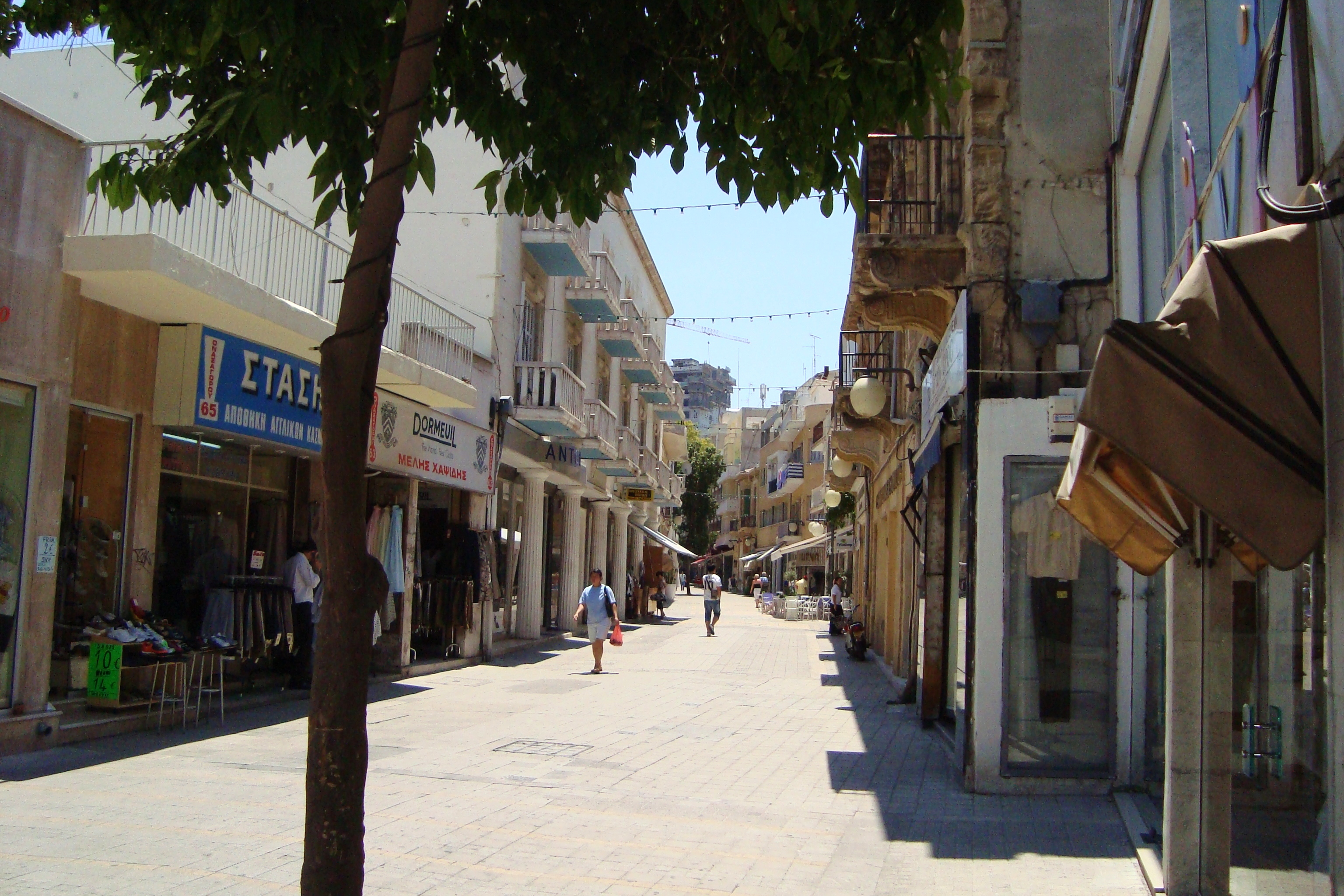 Onasagorou street in Nicosia Republic of Cyprus